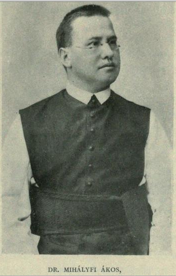 Portrait of Mihályfi Ákos